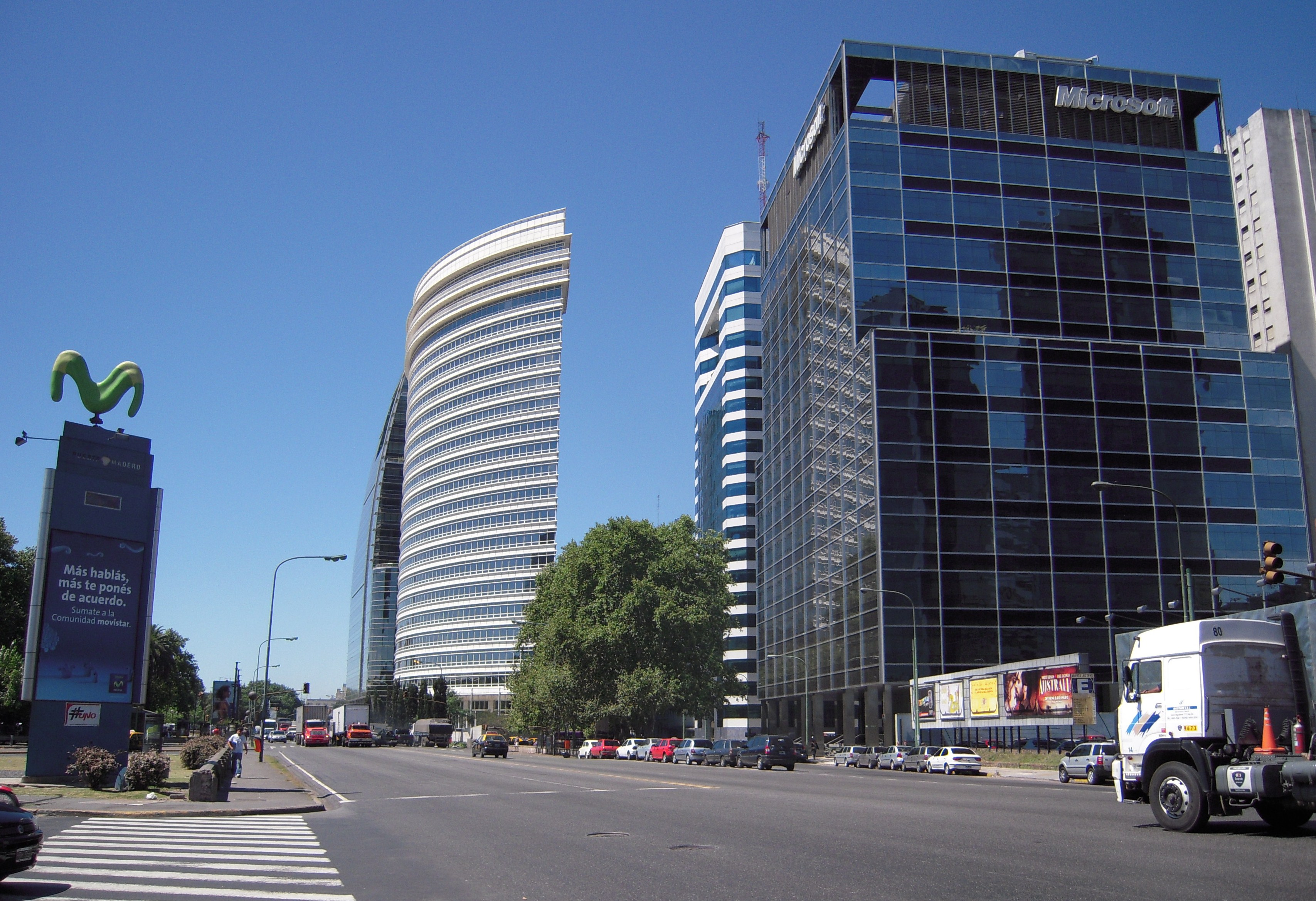 Edificio República, 91 metres high, 22 floors, 1996, by architect César Pelli (left); and the former Argentine headquarters for Microsoft (right). Along Eduardo Madero Avenue, in the San Nicolás ward of Buenos Aires.